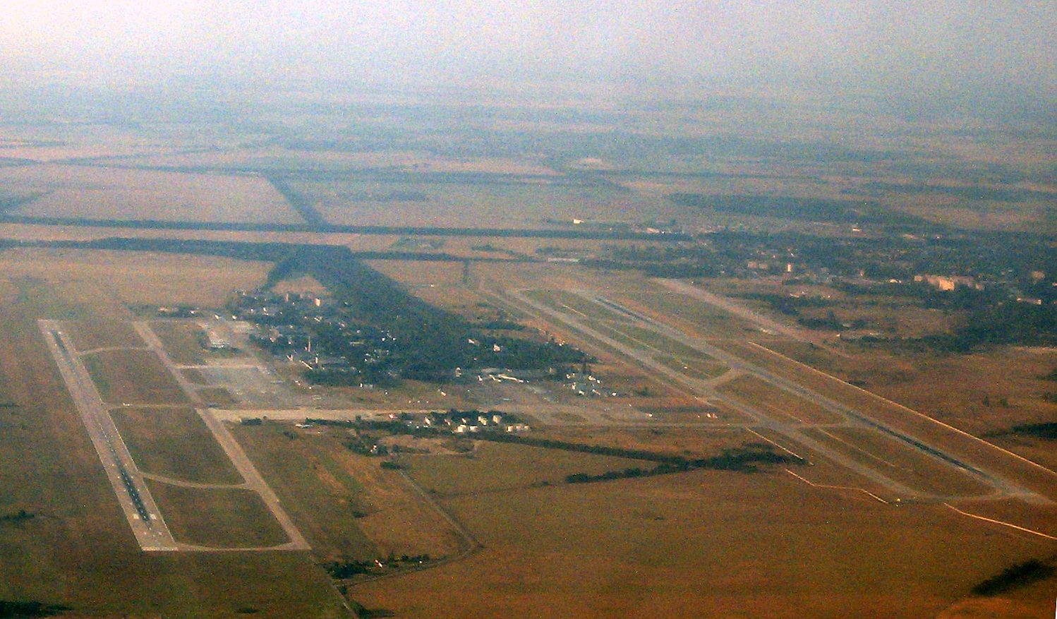 Boryspil International Airport